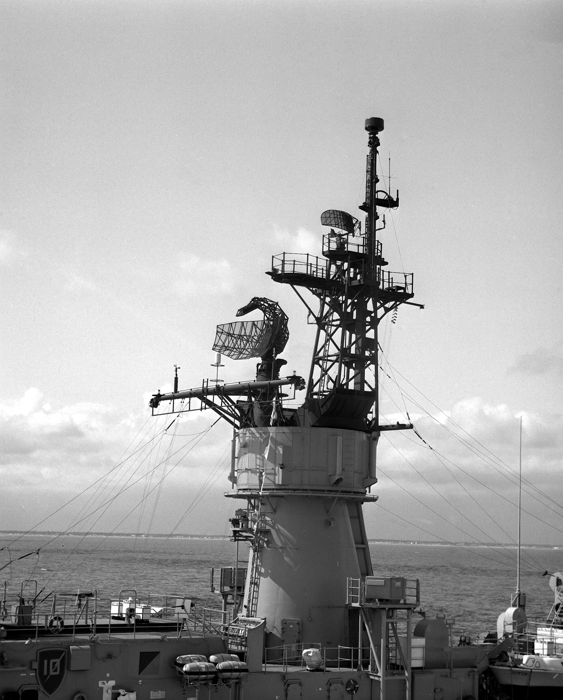 A close-up view of the SPS-40 air search radar, center, and the smaller SPS-10 surface search radar, right, aboard the frigate USS BOWEN (FF-1079).